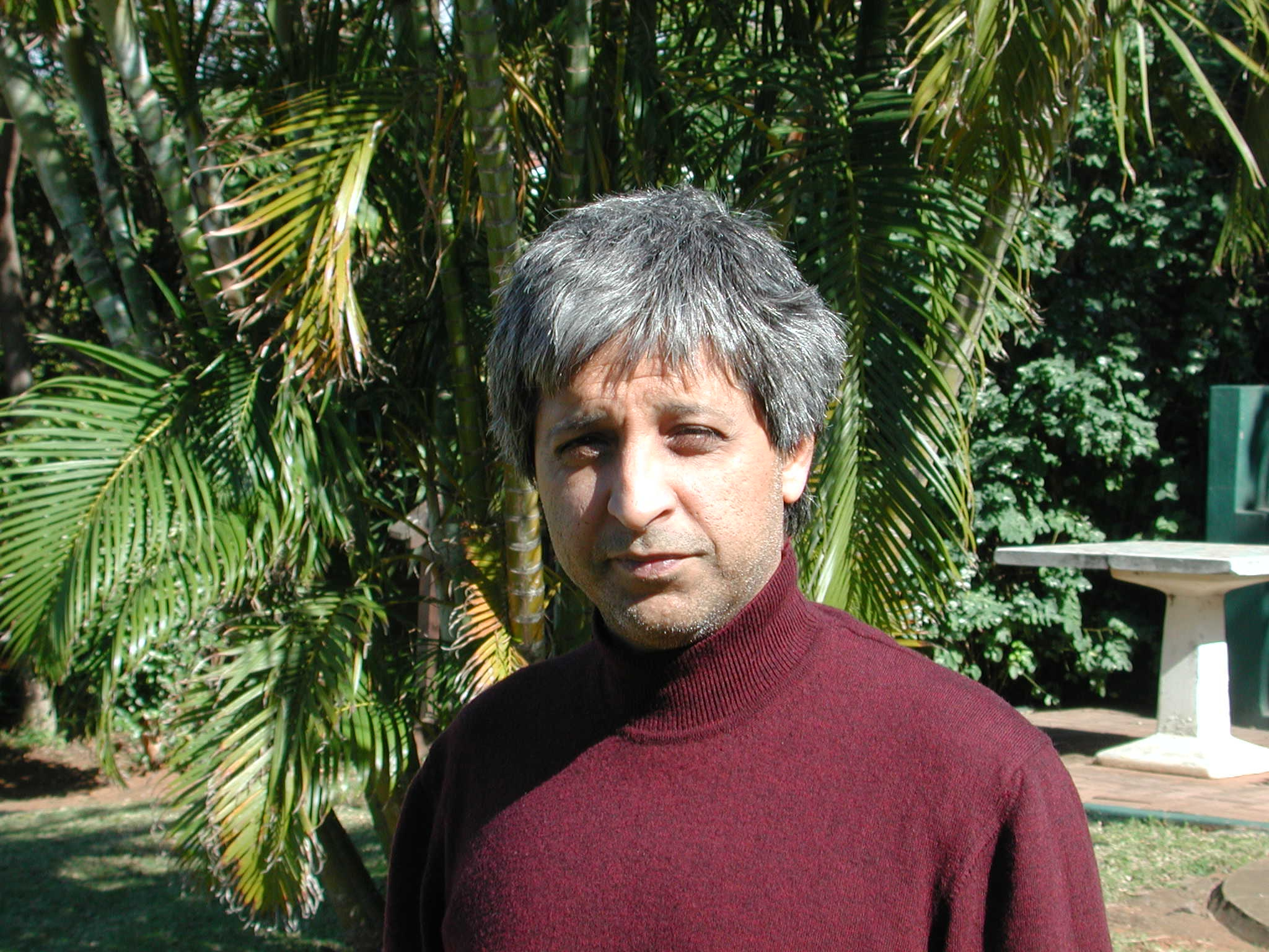 Director of the Centre for Civil Society at the University of Natal in the port city of Durban